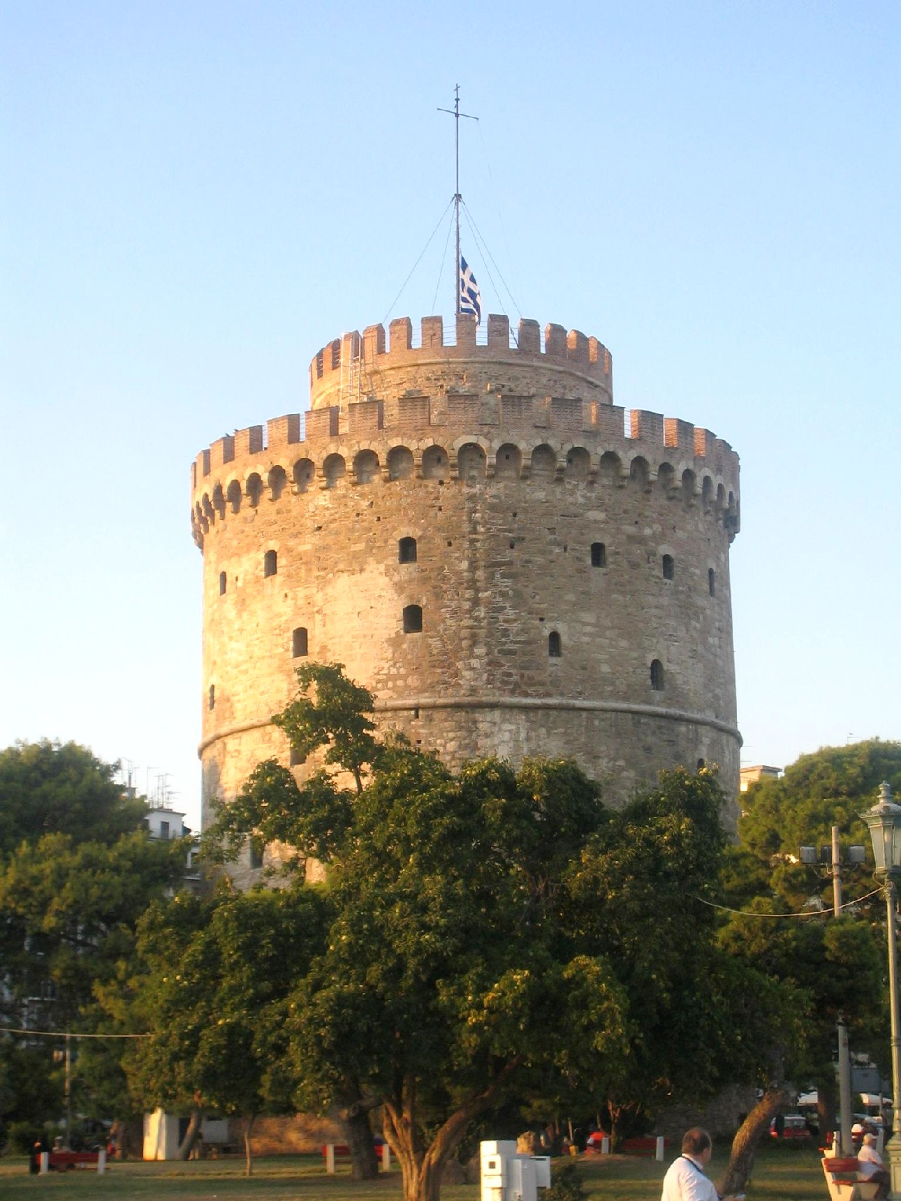 The White Tower of Thessaloniki. The Greek flag is low on the mast above the tower.